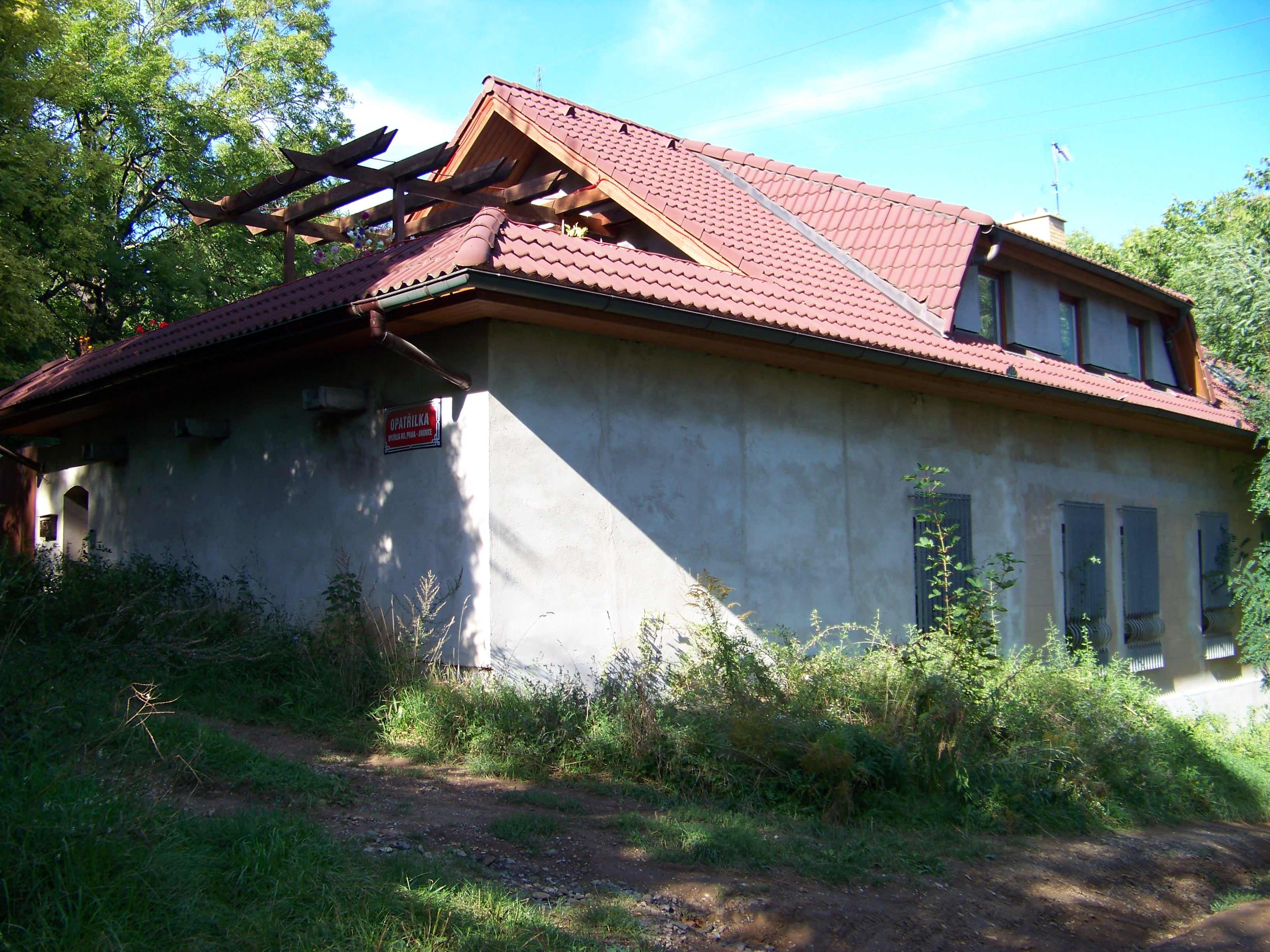 Prague-Jinonice, the Czech Republic. Daleje Valley, Opatřilka estate. - OpenStreetMap(Info)